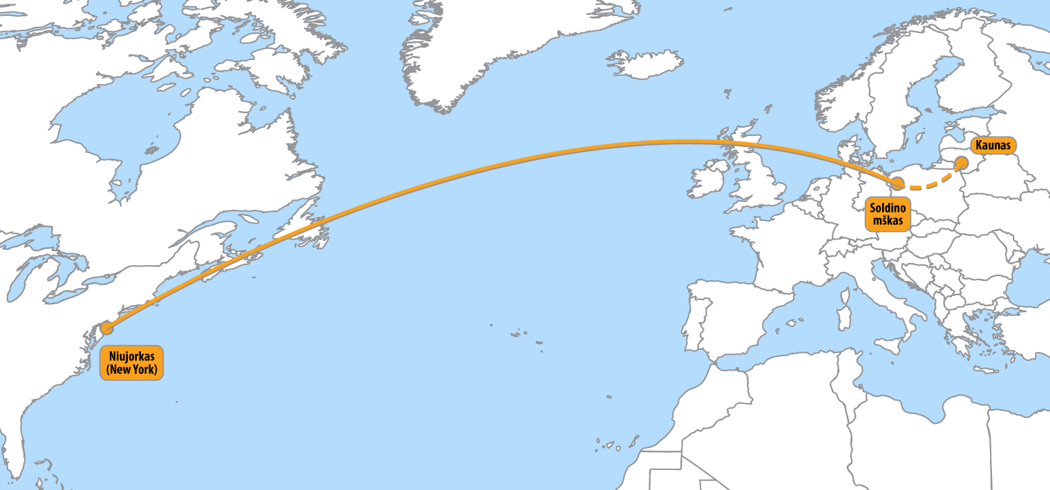 Steponas Darius andd Stasys Girėnas transatlantic flight map 1933, Lituanica.